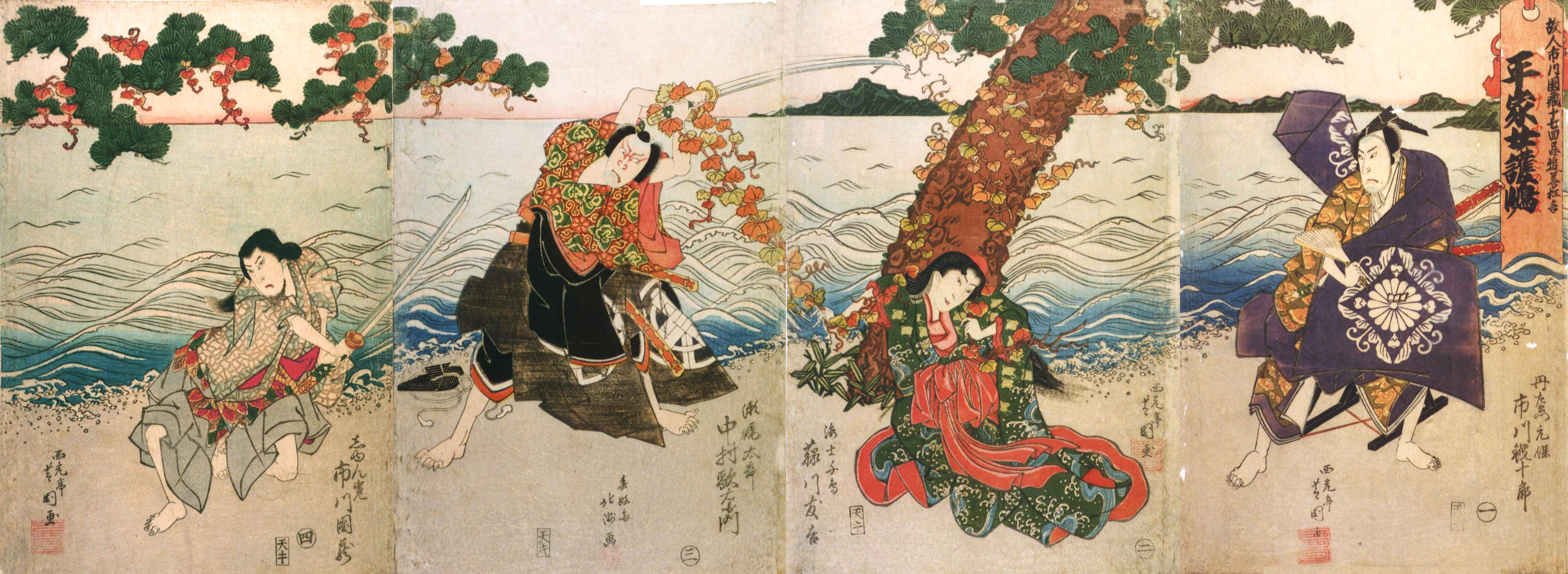 “Heike Nyogo-ga-shima: The memorial production for the late Ichikawa Danzō IV” a set of four ukiyoe prints by Saikōtei Shibakuni & Shunkōsai Hokushū, depicting the September 1824 production of Heike Nyogo-ga-shima at Osaka Kado-za